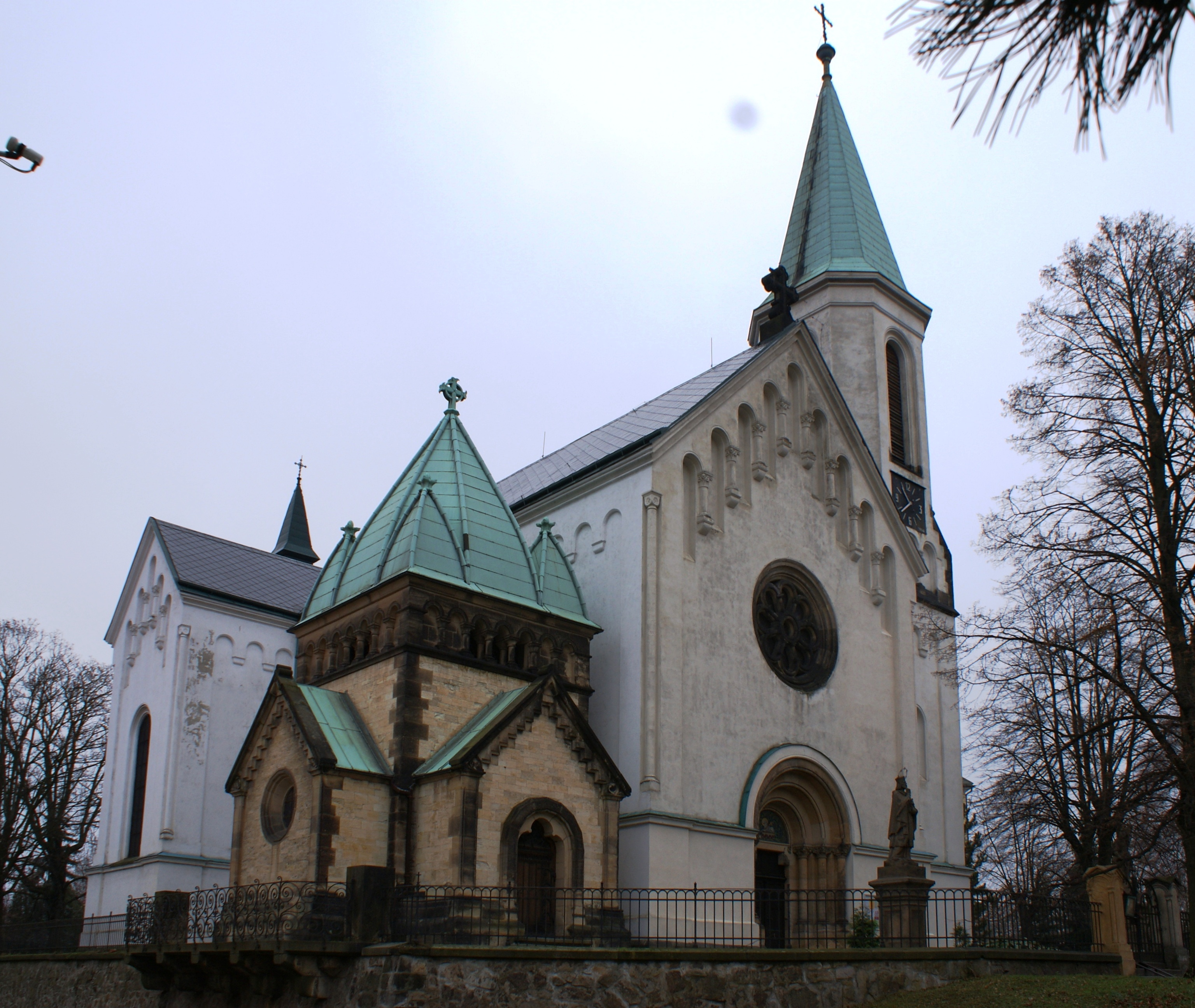 Church of St Remigius in Čakovice, Prague.